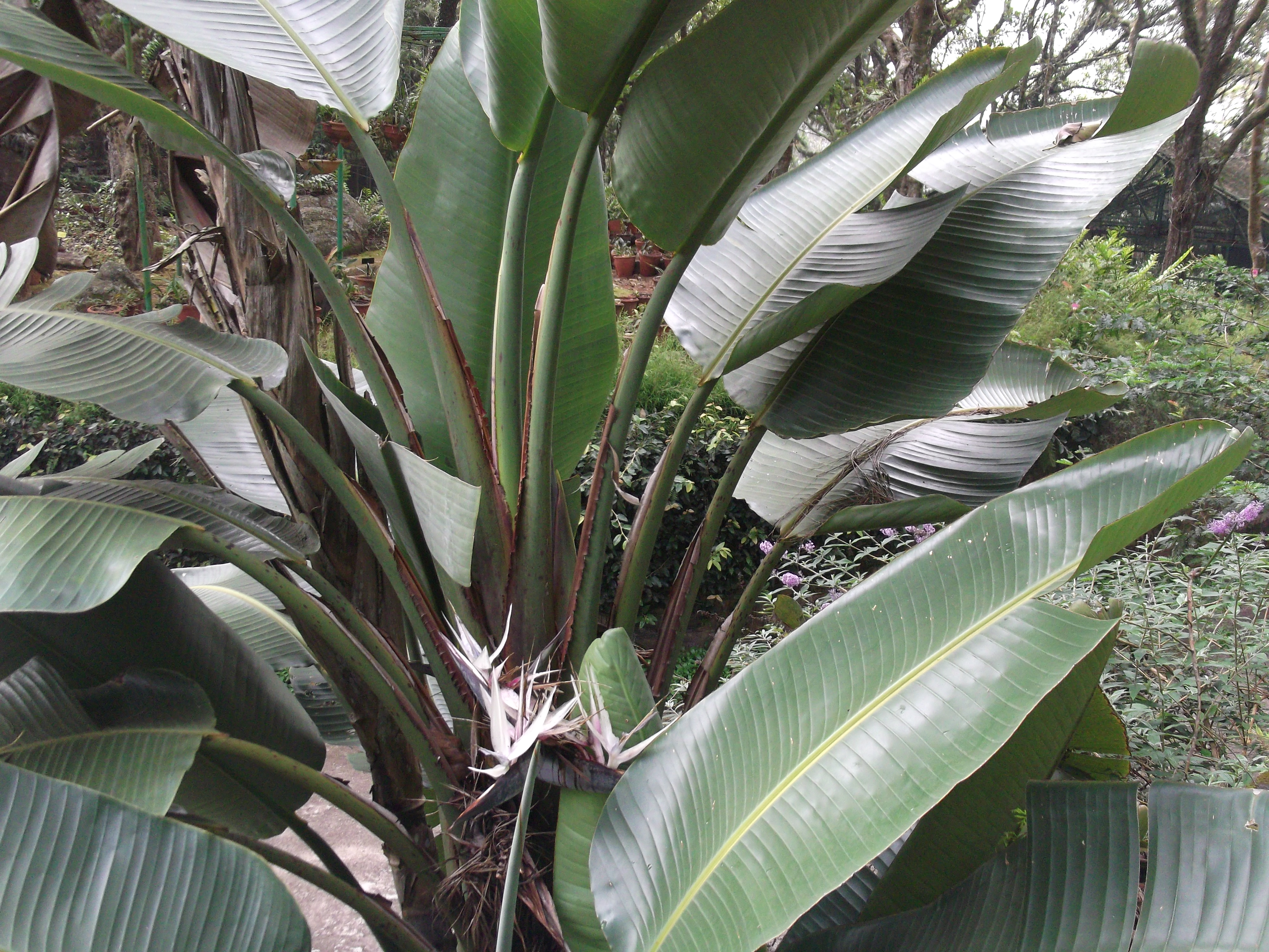 Great white strelitzia,palm like tree,leaves fan like.Flowers white.